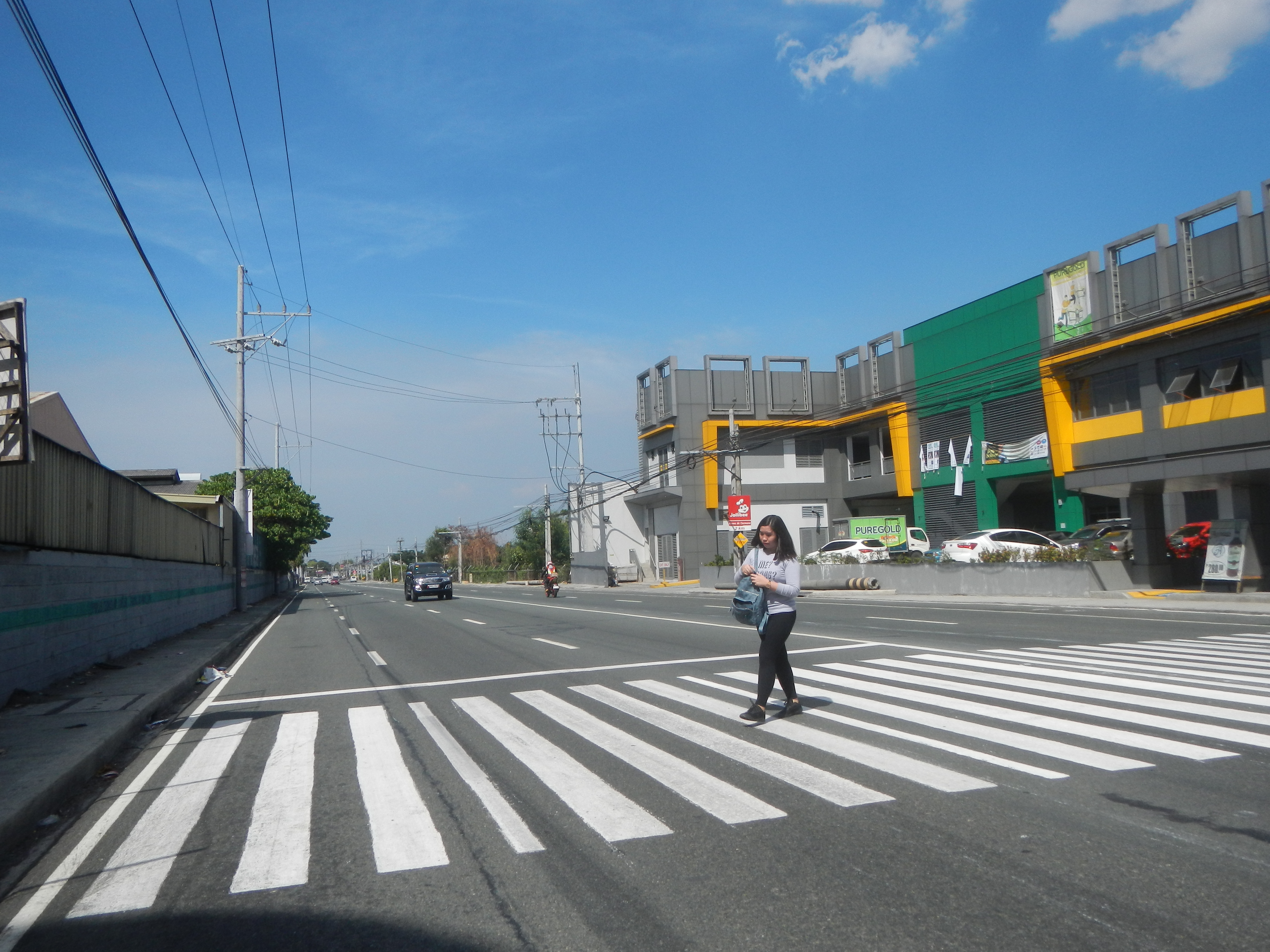 Governors Drive 14°19'32"N 121°3'57"E Maduya 14°18'47"N 121°3'51"E Governor's Drive South Luzon Expressway Barangay Maduya to Bancal, Carmona, Cavite (Note: Judge Florentino Floro, the owner, to repeat, Donor Florentino Floro of all these photos hereby donate gratuitously, freely and unconditionally Judge Floro all these photos to and for Wikimedia Commons, exclusively, for public use of the public domain, and again without any condition whatsoever).